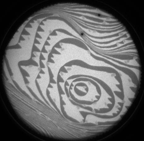 LEEM image of a Pd monolayer (dark) growing at high temperature on a W(110) surface (bright) in step-flow mode. Faint islands are tungsten carbides. The diameter of the imaged area is 10 microns.